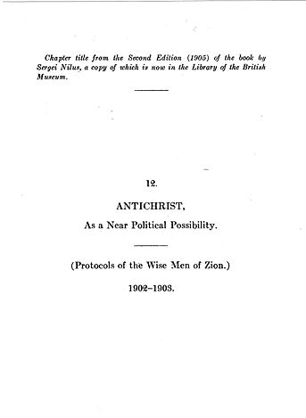 English translation for title page of Chapter 12 of The Protocols of the Elders of Zion